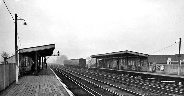 Berrylands Station. View ENE, towards Wimbledon and Waterloo; Waterloo - Wimbledon - Surbiton - Woking etc. Main line. (Down Local train approaching).